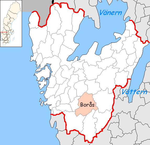 Borås Municipality in Västra Götaland County Designed by me. Mere outlines are a PD source from